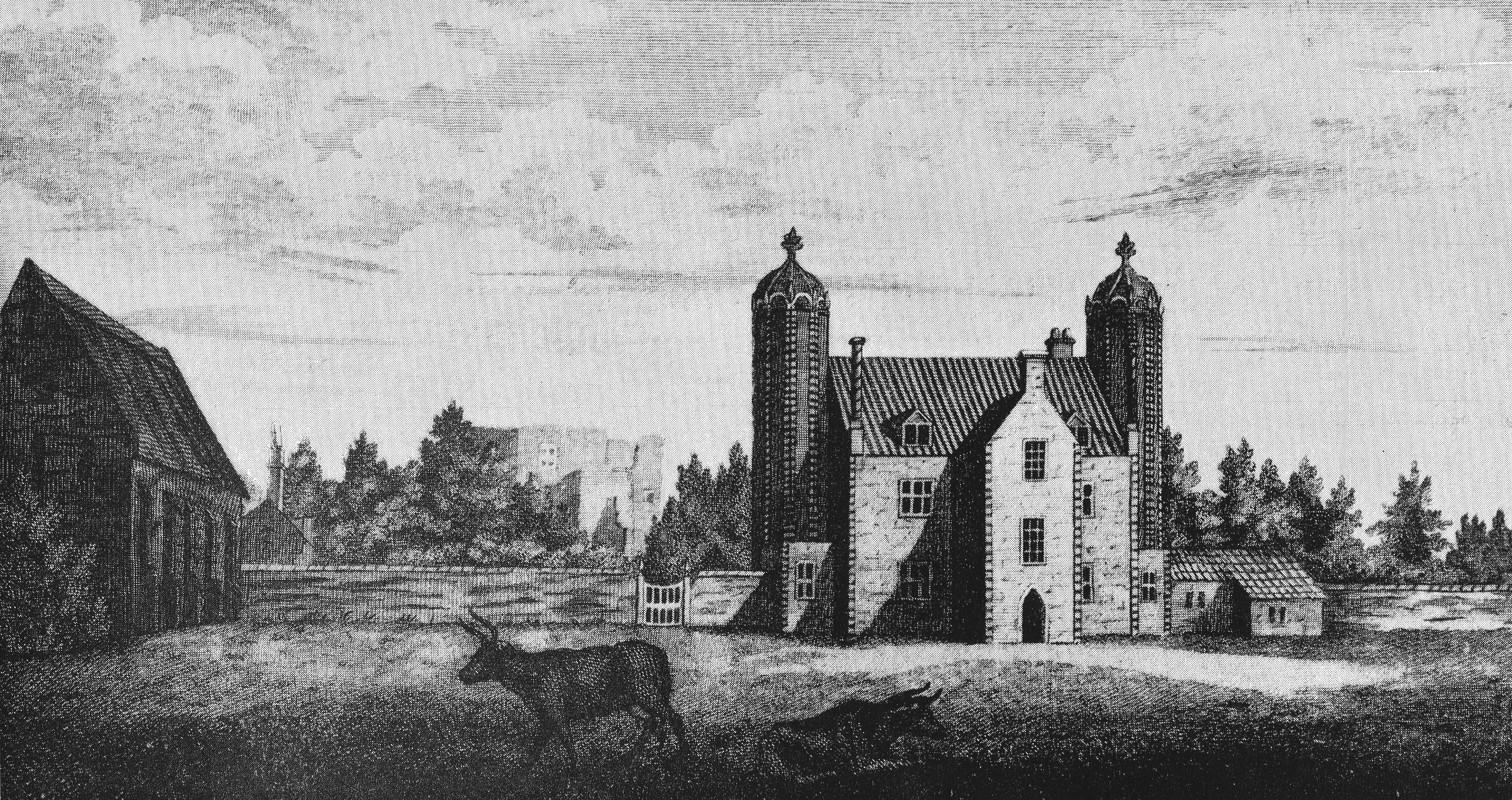 Engraving by J. Page